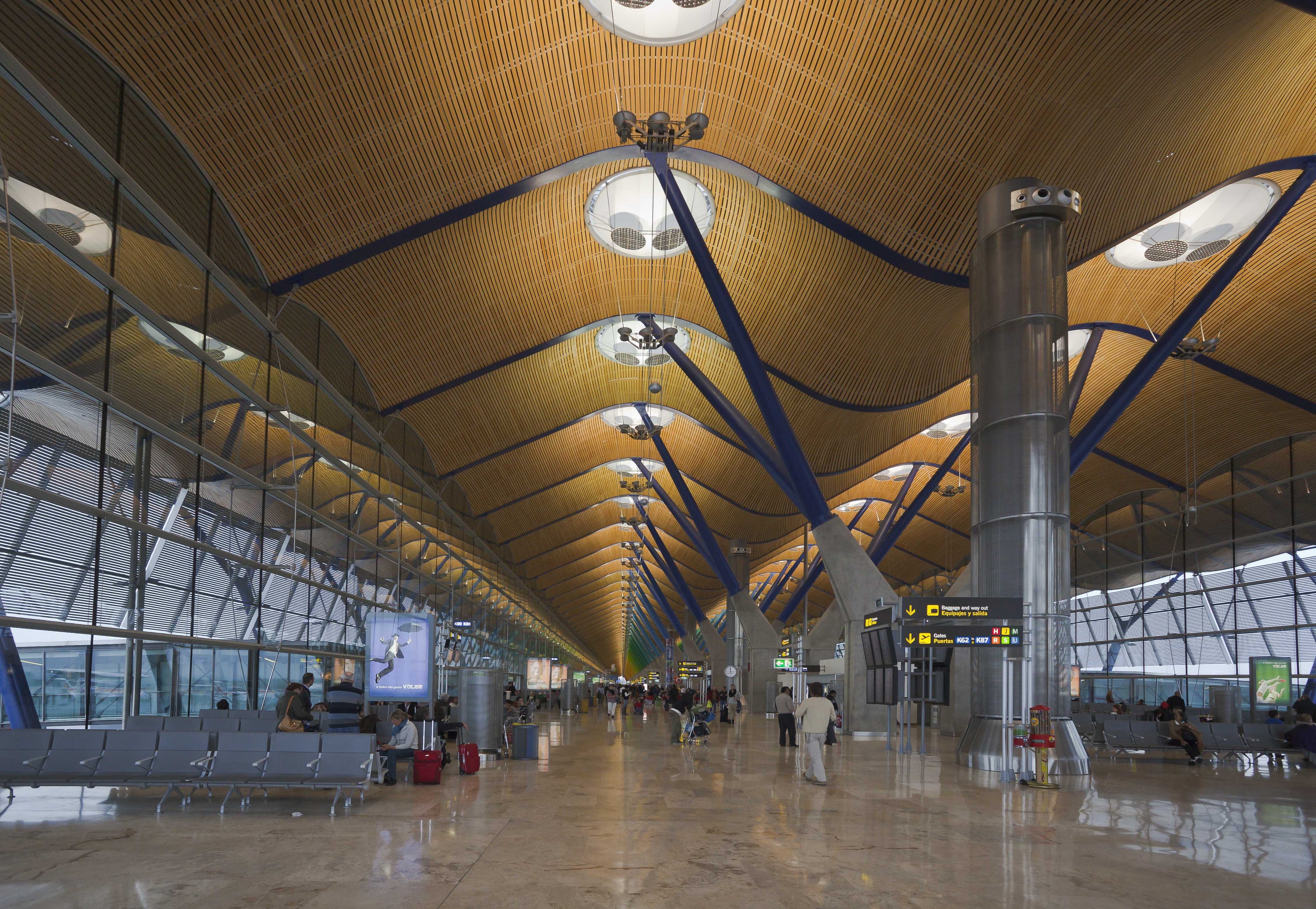 Terminal 4 of the airport Madrid-Barajas, Spain